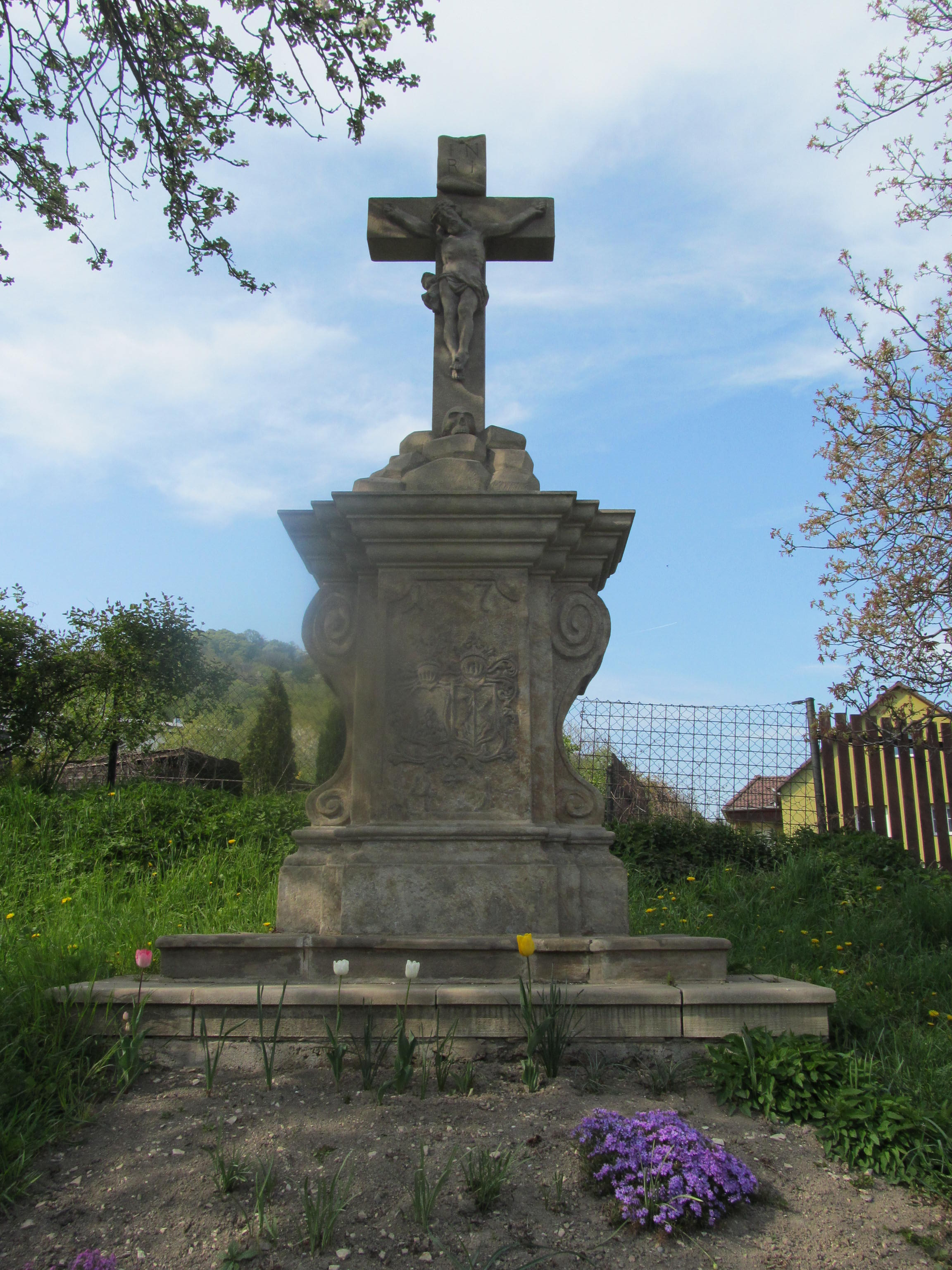 Cross in Boreč